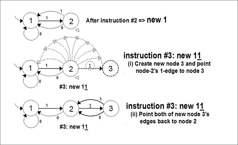 Pointer Machine Steps Example